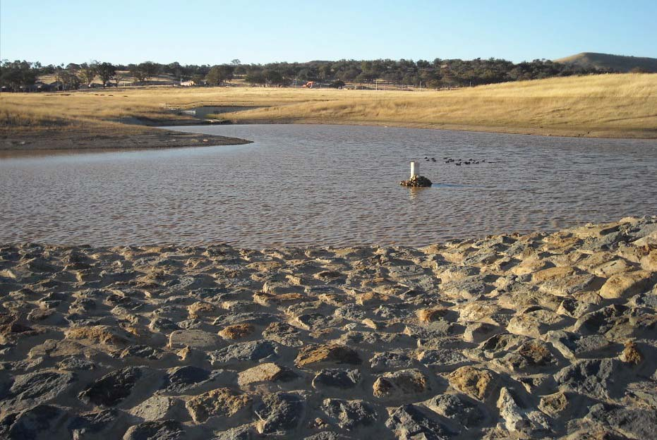 Pond Casey Canberra upload Photograph of casey uploaded